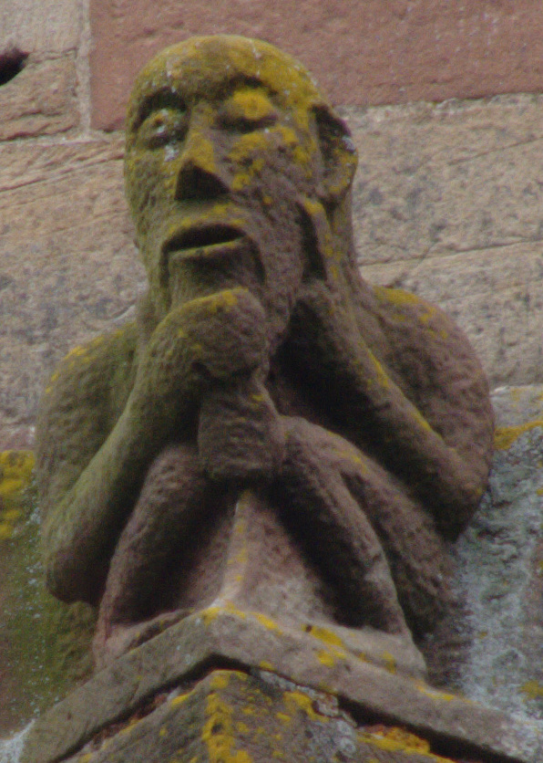 See Category:The Jew with the money purse in Rosheim